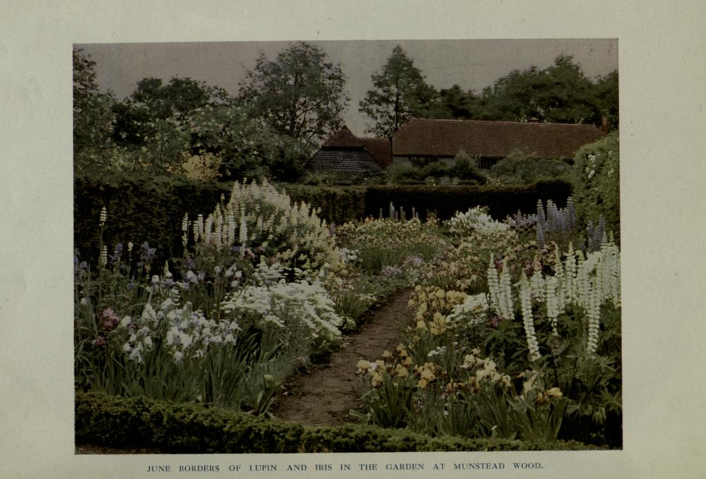 Frontispiece from the 1914 edition of the book "Gardens for small country houses".